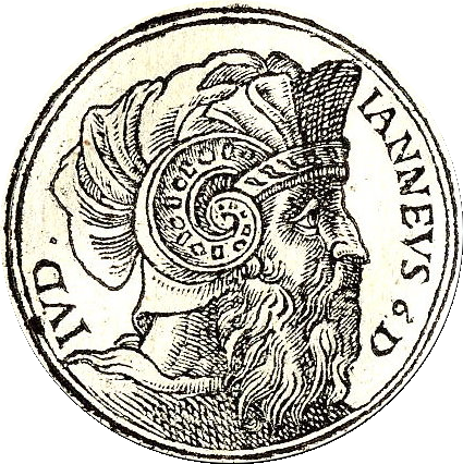 Alexander Jannaeus from Guillaume Rouillé's Promptuarium Iconum Insigniorum.